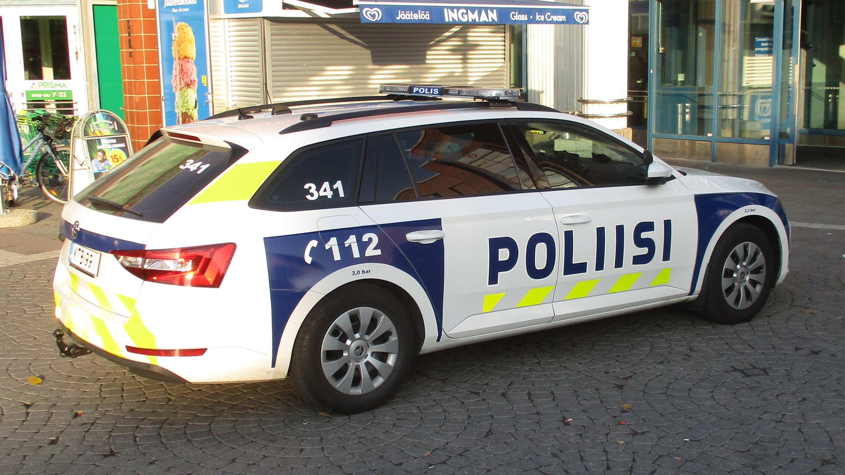 Police car at Malmi, Helsinki 6.9.2018.